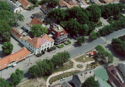 Izsák, Hungary, aerialphotgraphy